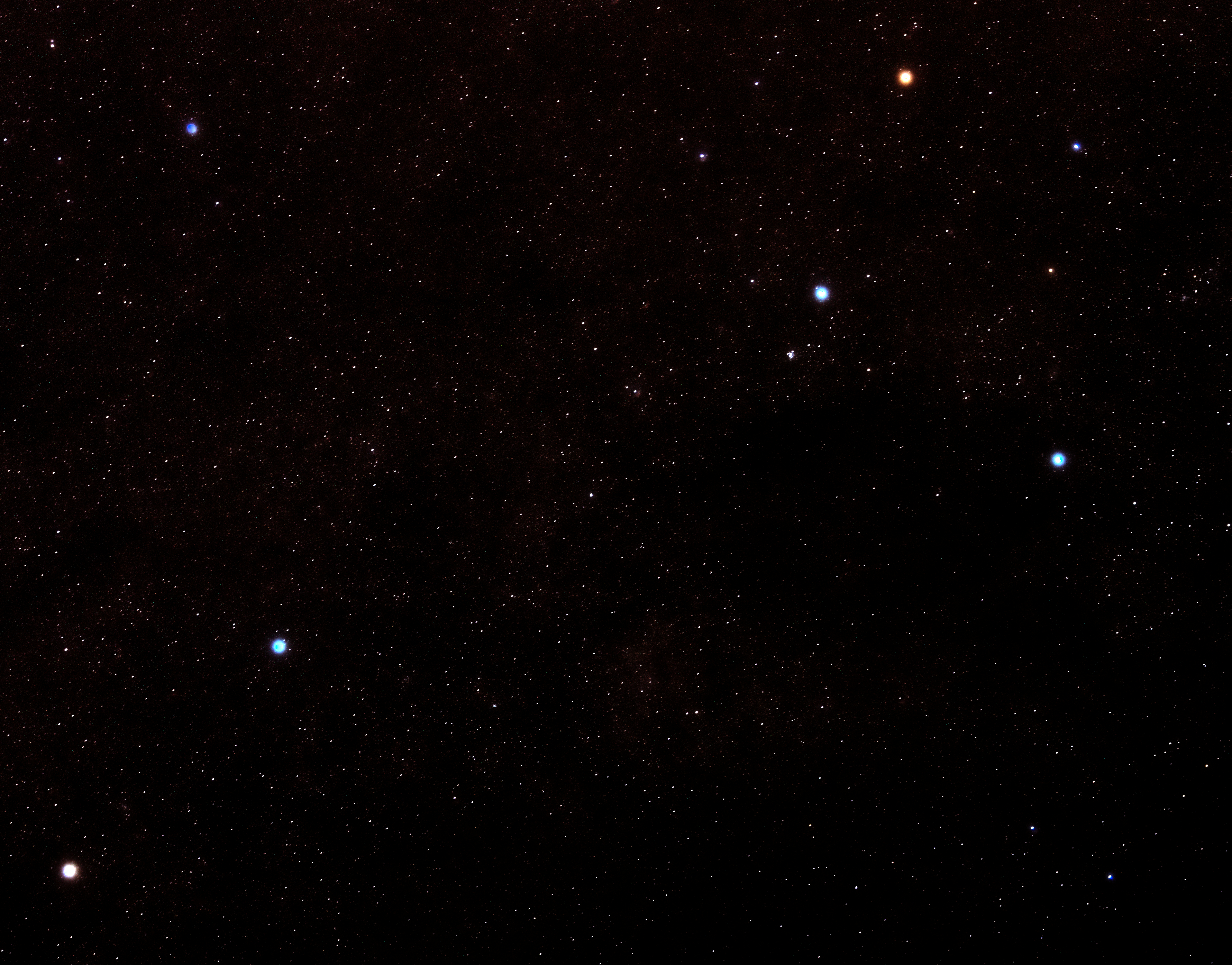 An image of the constellation Crux, otherwise known as the Southern Cross. The image consists of ten frames, each with a duration of ten seconds, which have been stacked to reduce noise and the effect of light pollution. As with most digital astrophotographs a large amount of post-processing has been done; frame stacking as well as manipulation of light levels and gamma. A side-effect of removing light pollution is that the brightness of background stars has been reduced. The background star density in the image closely resembles the constellation as seen with the naked eye in a light polluted area.